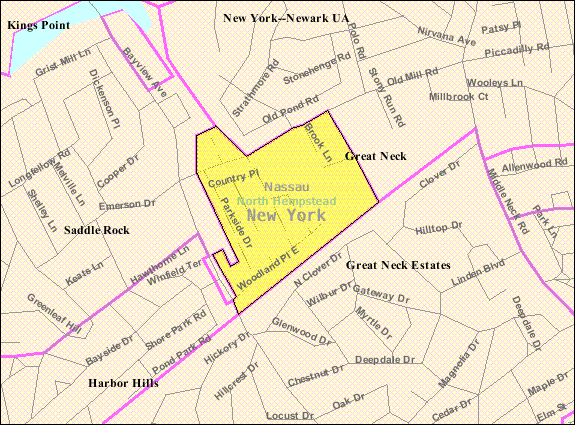 U.S. Census 2000 reference map for Saddle Rock Estates, New York